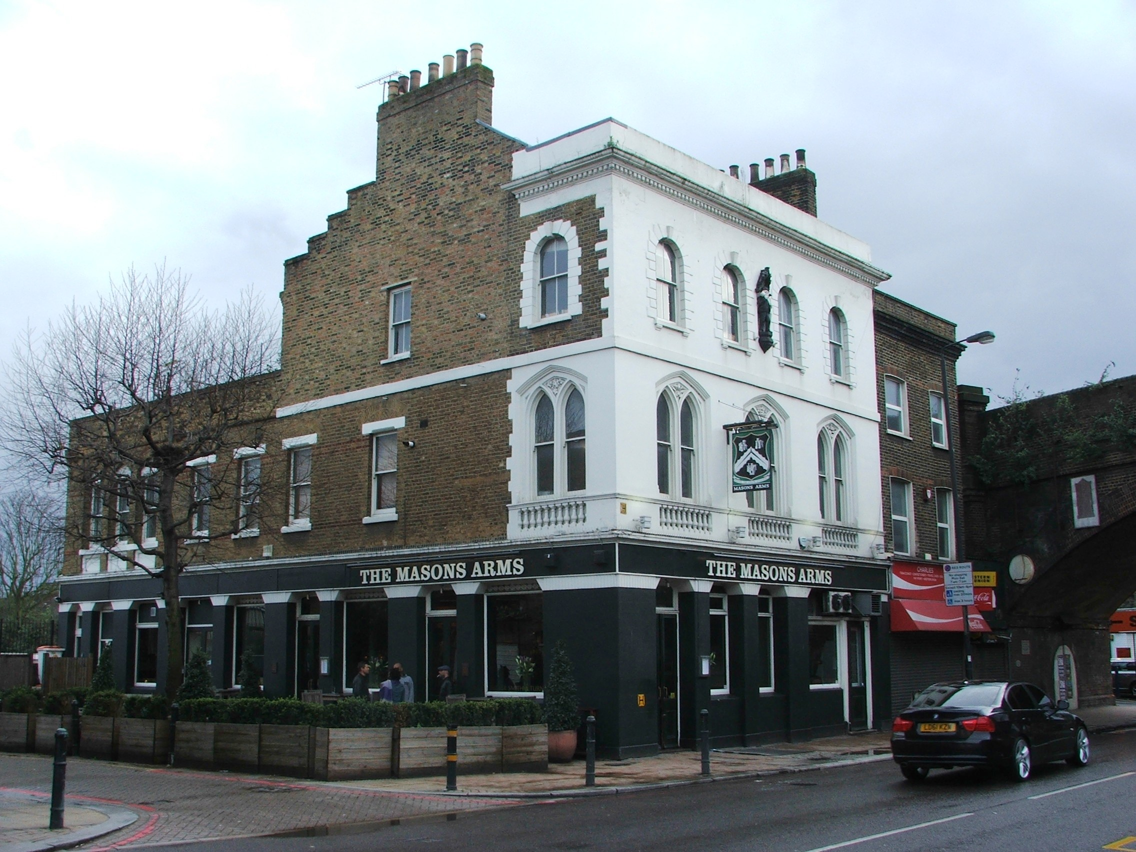 The Masons Arms, Battersea